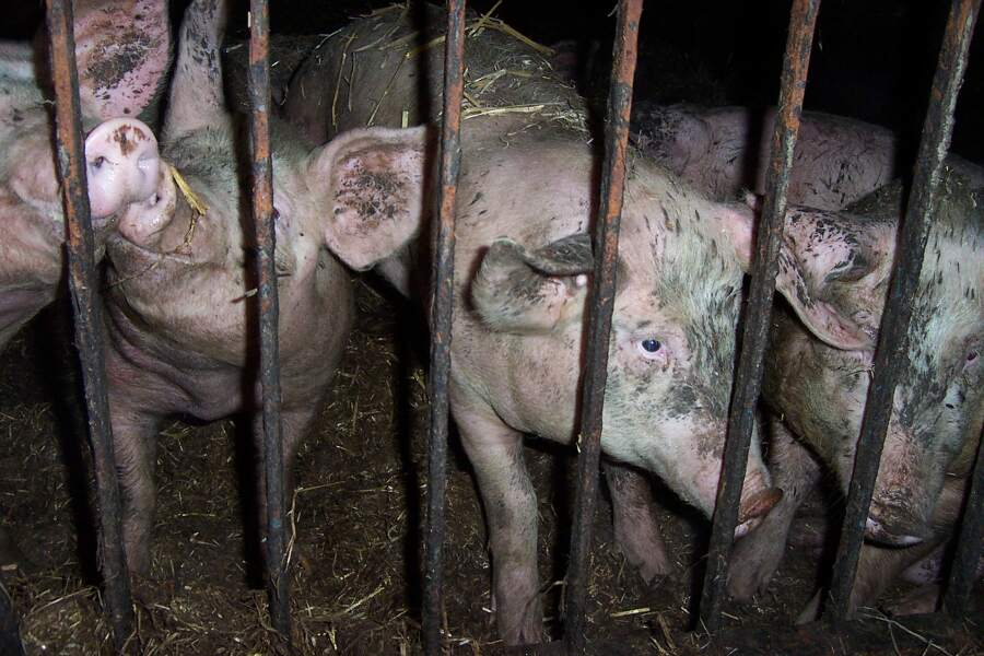 Pigs behind bars